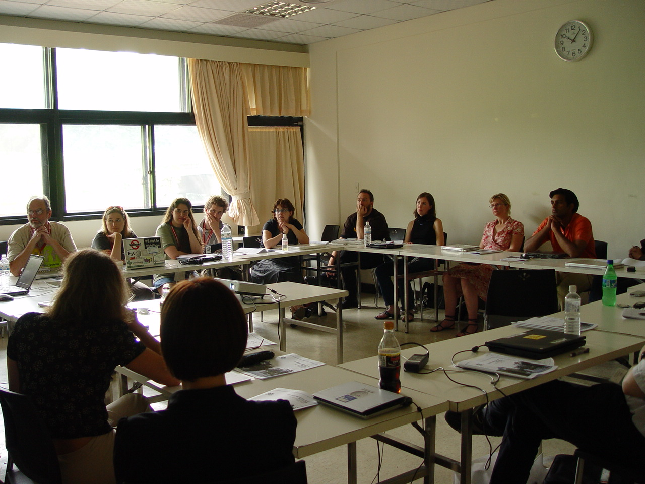 Wikimedia Foundation Board and Advisory Board meeting, Taipei, 2007